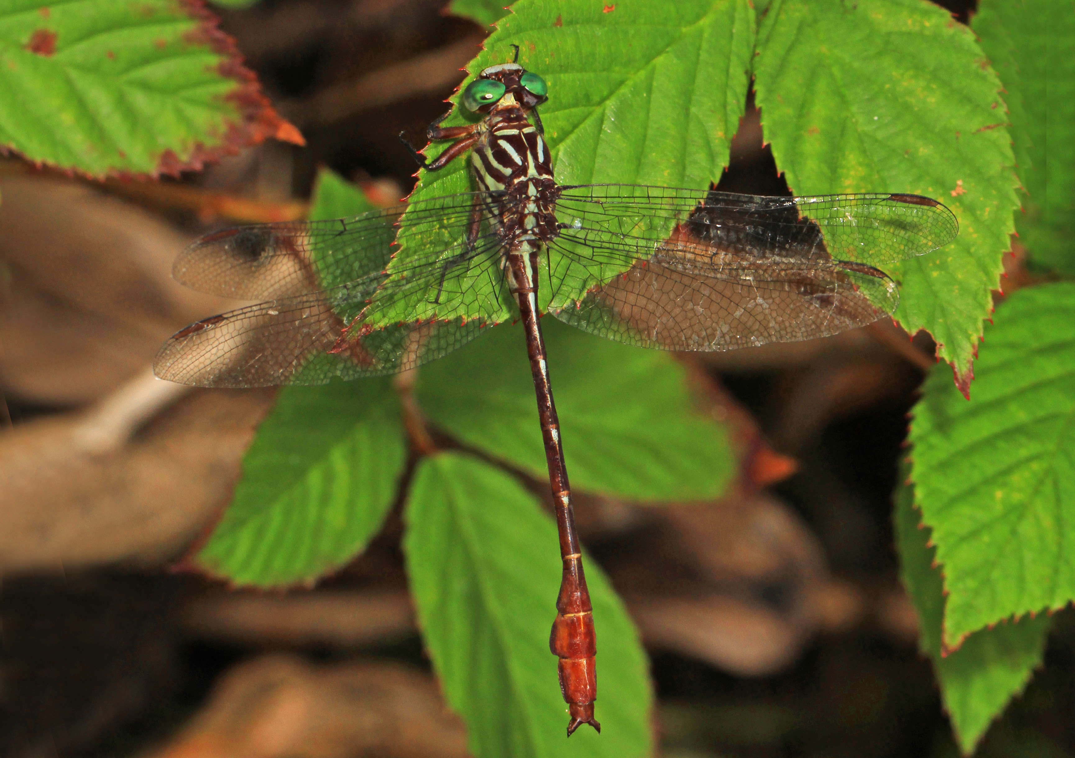 Russet-tipped Clubtail - Stylurus plagiatus, Leesylvania State Park, Woodbridge, Virginia